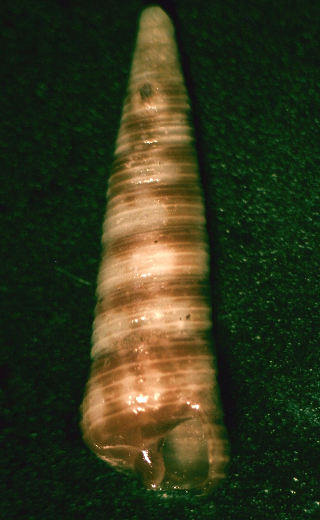 Seila marmorata (R. Tate, 1893), a micromollusc from the family Cerithiopsidae; South Australia